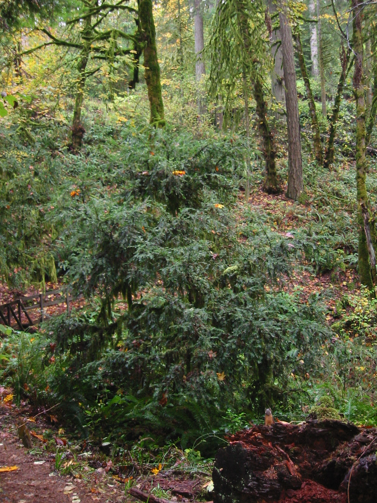 Pacific Yew form. Some shed maple leaves are lodged among the yew branches. The forest includes Douglas-fir, Big Leaf Maple, and Grand Fir.